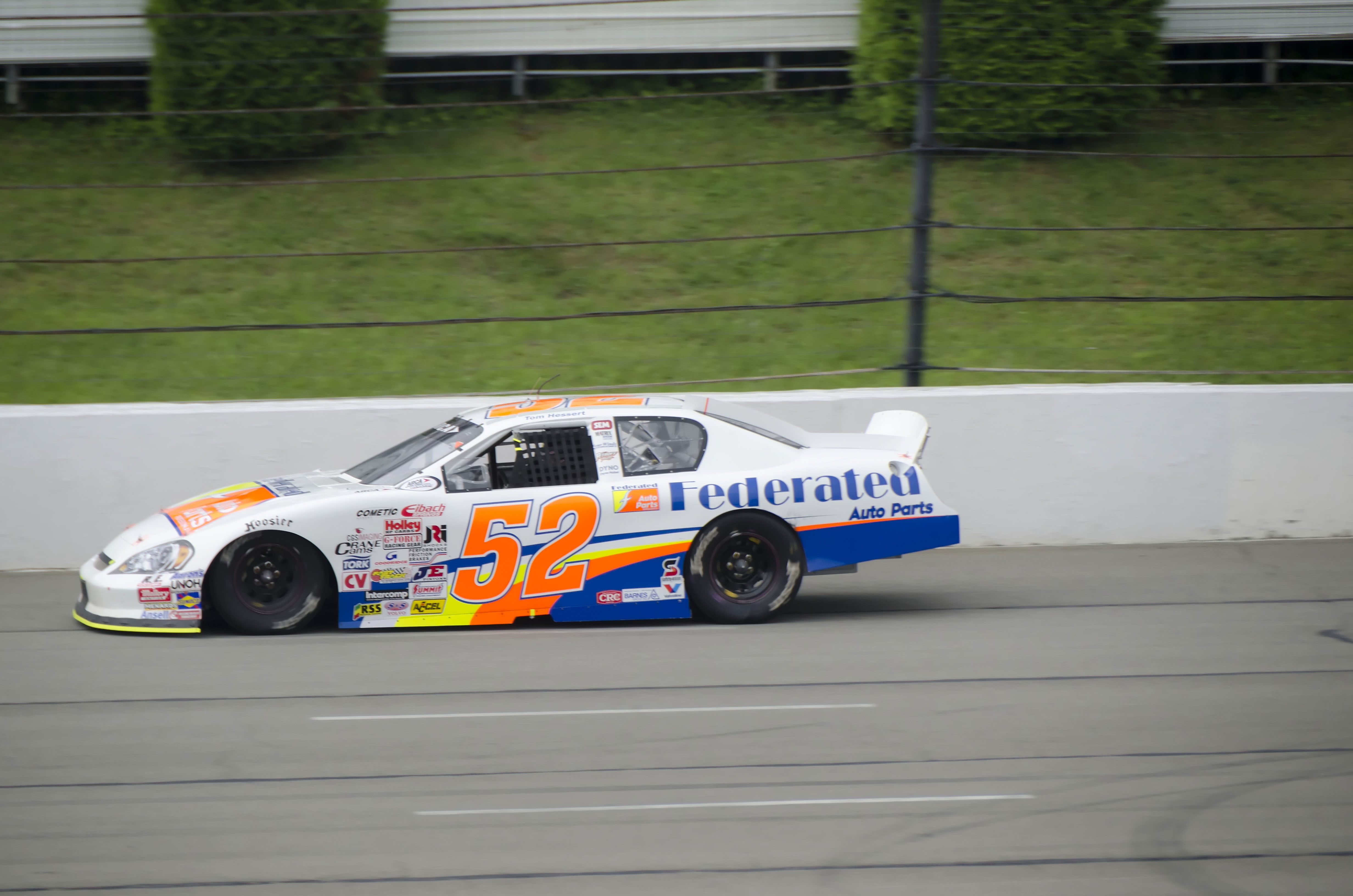 Tom Hessert III's No. 52 Federated Auto Parts Chevrolet at Pocono Raceway in 2011